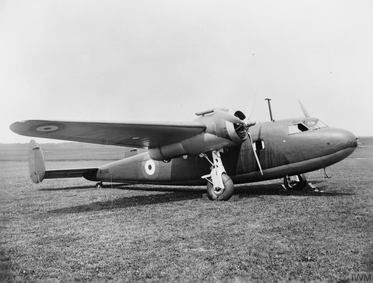 R2510 the only de Havilland DH.95 Hertfordfordshire a military transport variant of the DH.95 Flamingo.